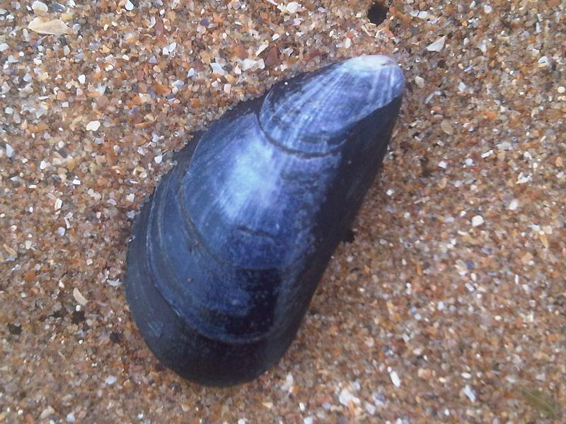 Blue mussel (Mytilus edulis) at the Broadstairs, England.